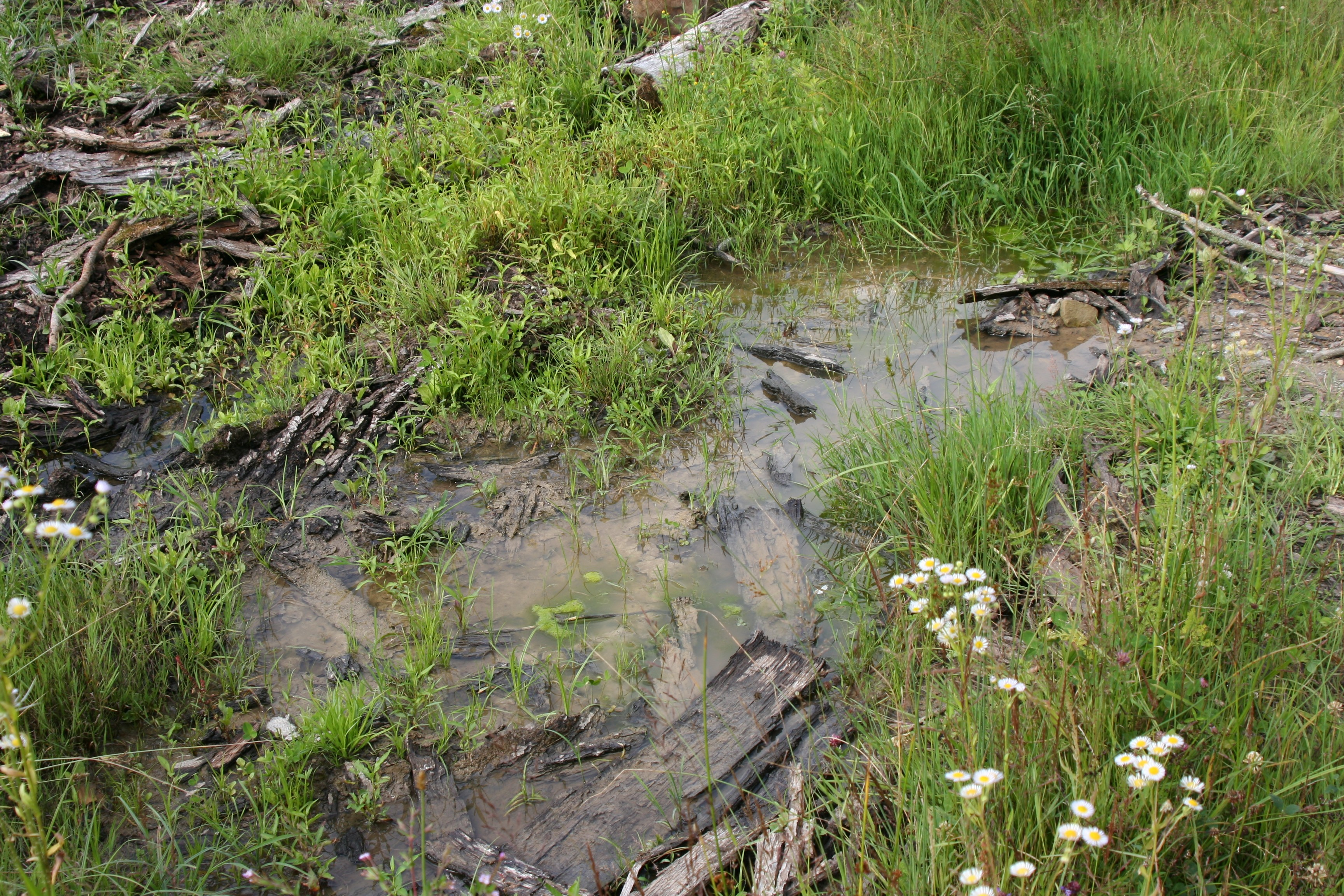 Habitat of the yellow-bellied toad (Bombina variegata) photographed in Weinsberg